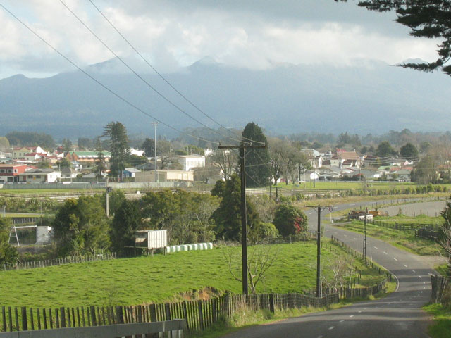 Photo by Larry Ferens - Inglewood, from Lincoln Road, taken 2005